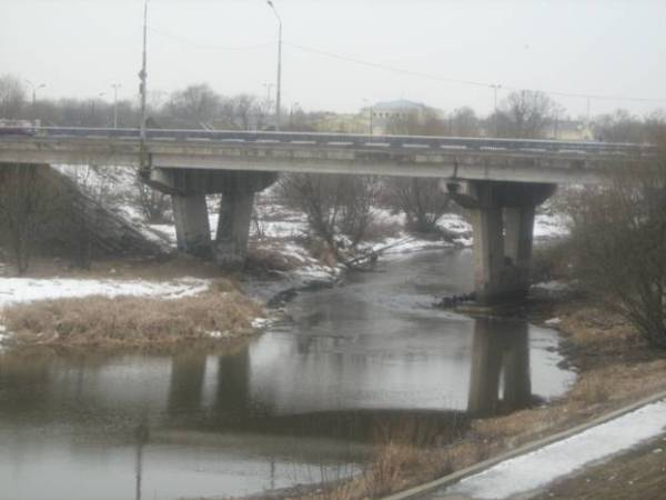 Tmaka bridge in Tver